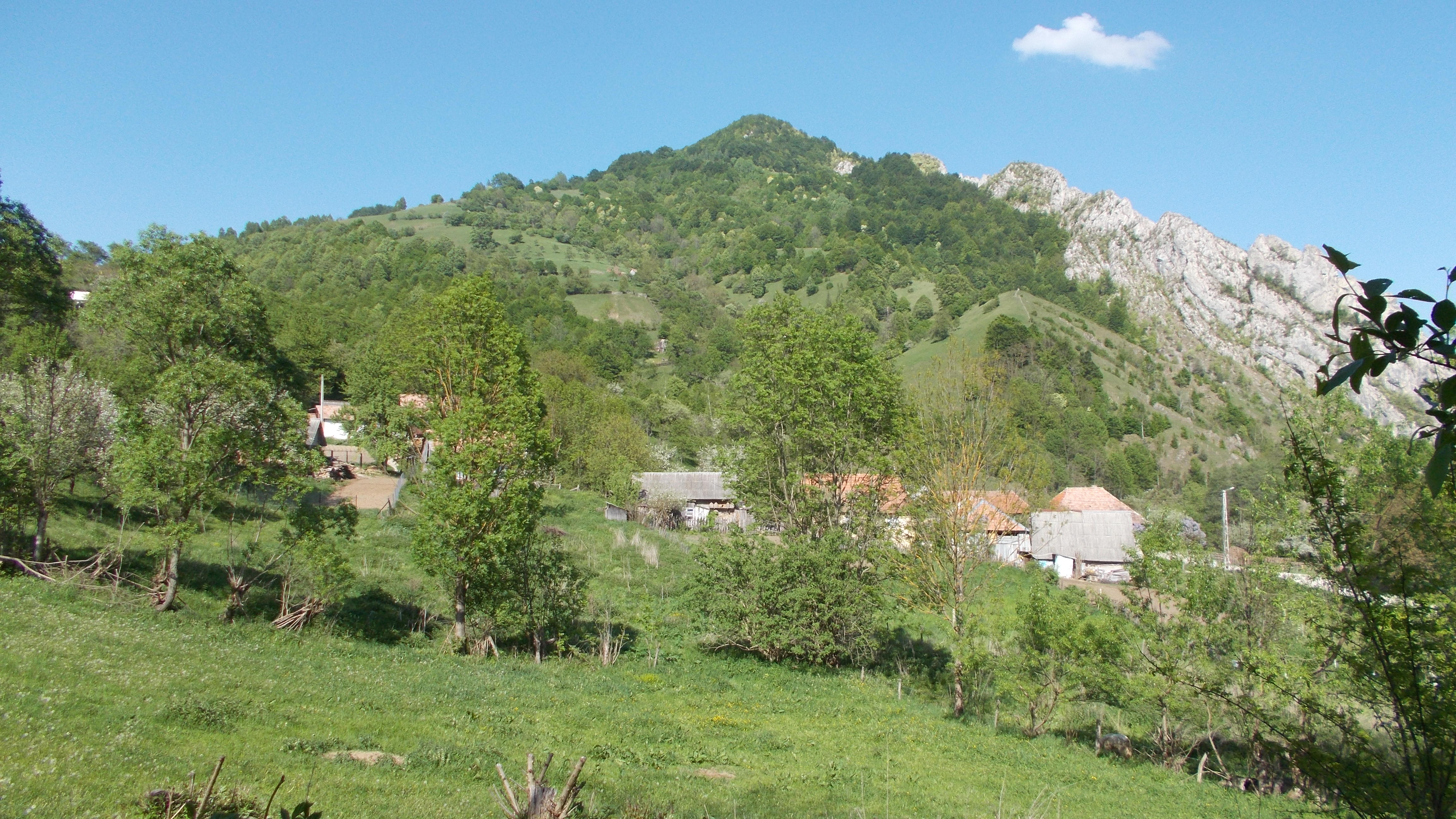 Modolești (Întregalde), Alba County, Romania